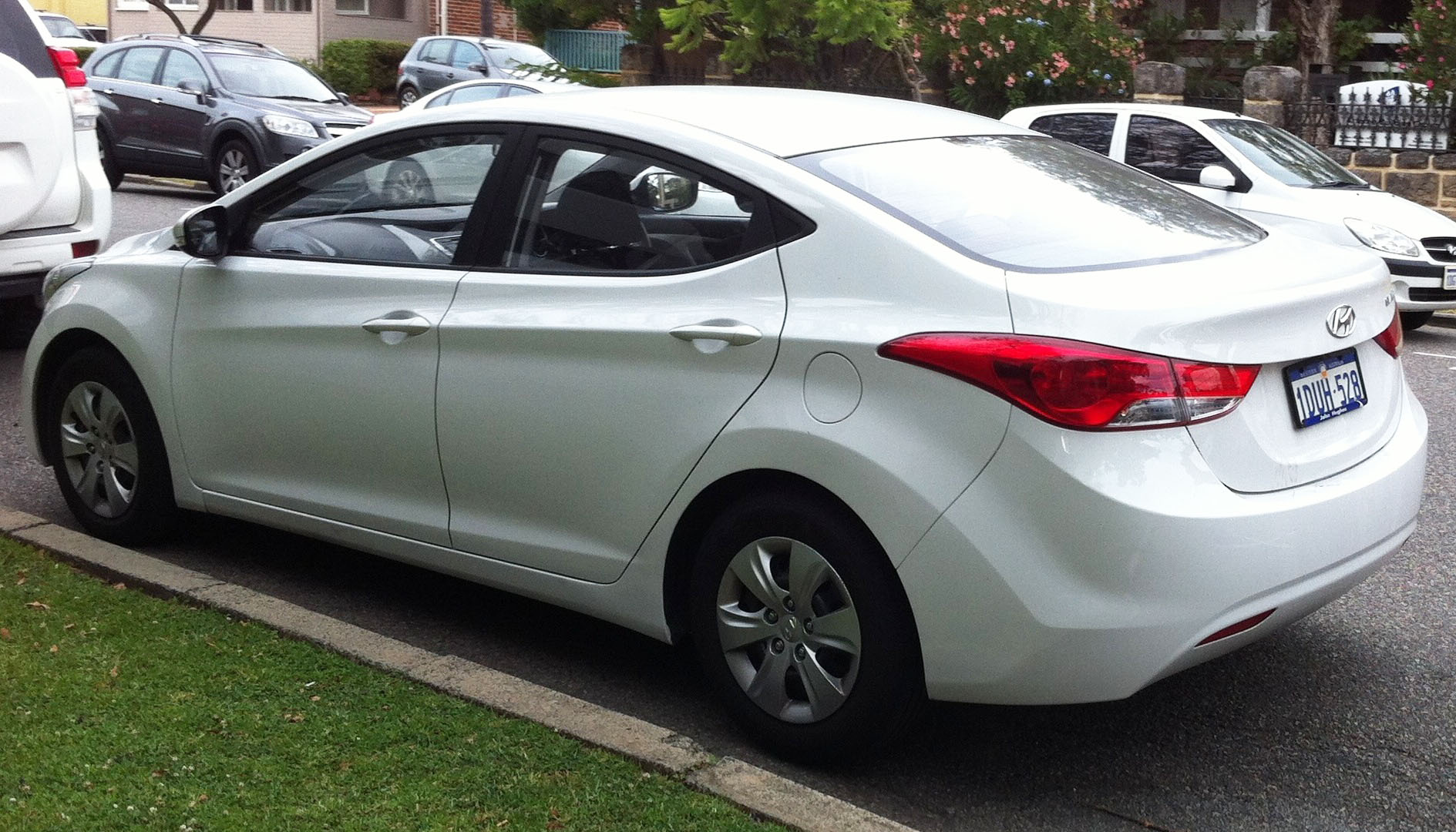 2012 Hyundai Elantra (MD) Active sedan. Photographed in West Perth, Western Australia Australia.